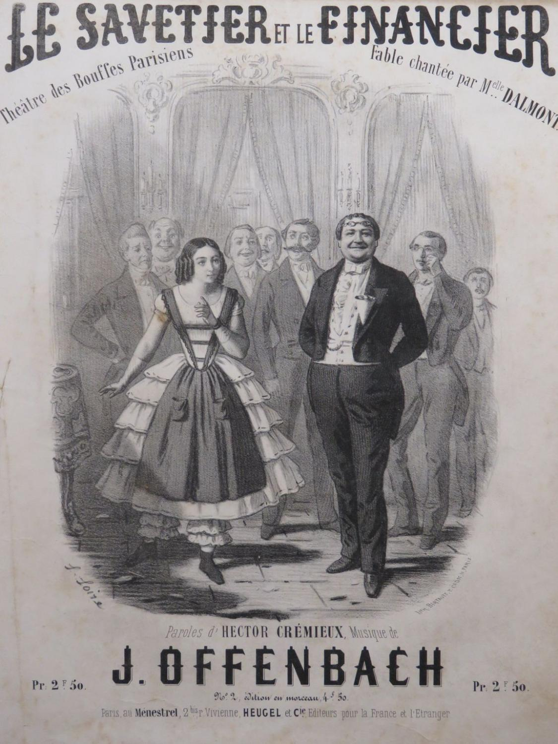 A separate score of the solo from Offenbach's opera Le financier et le savetier (1856)